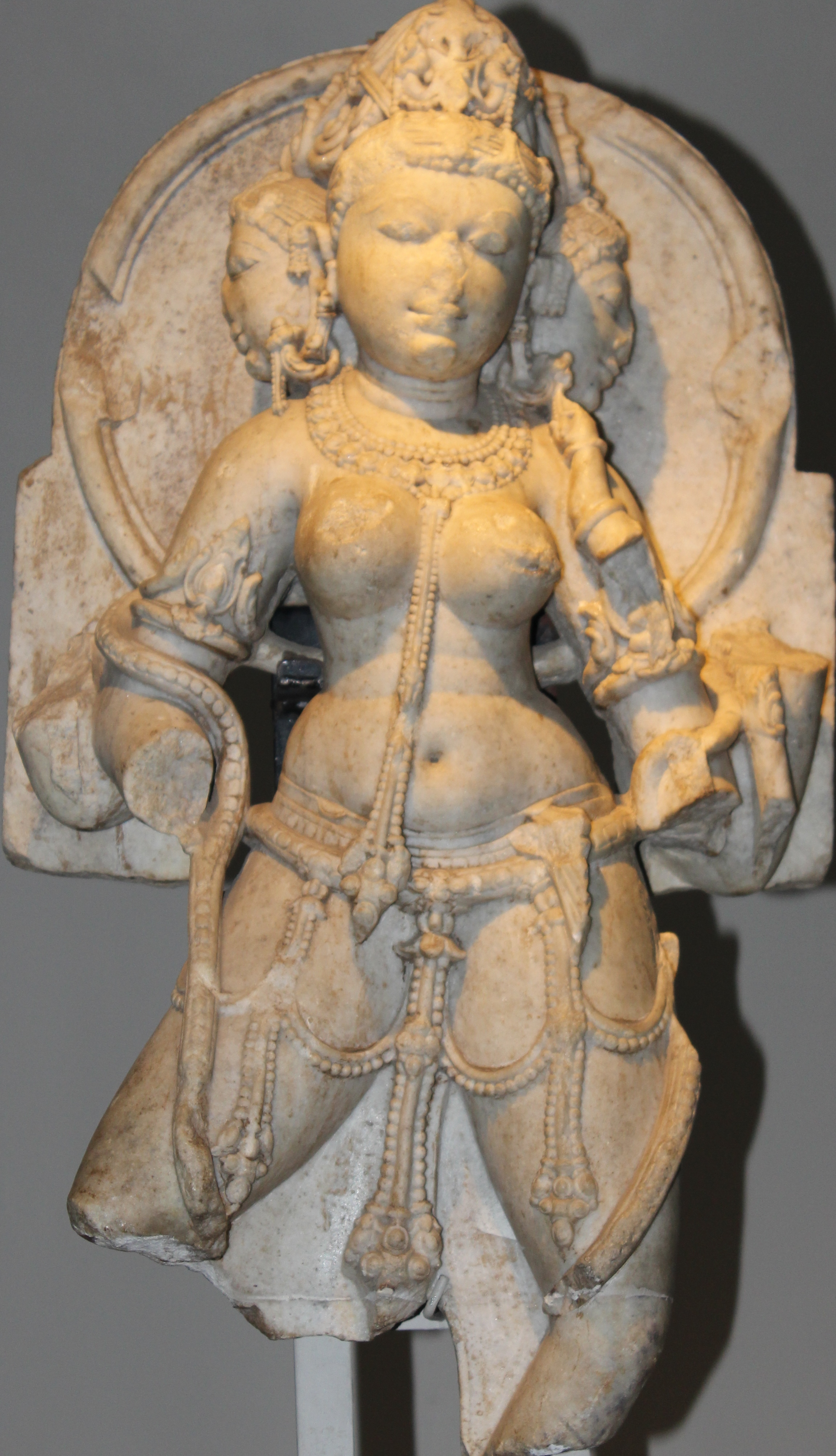 the female version of Brahma known as Brahmani